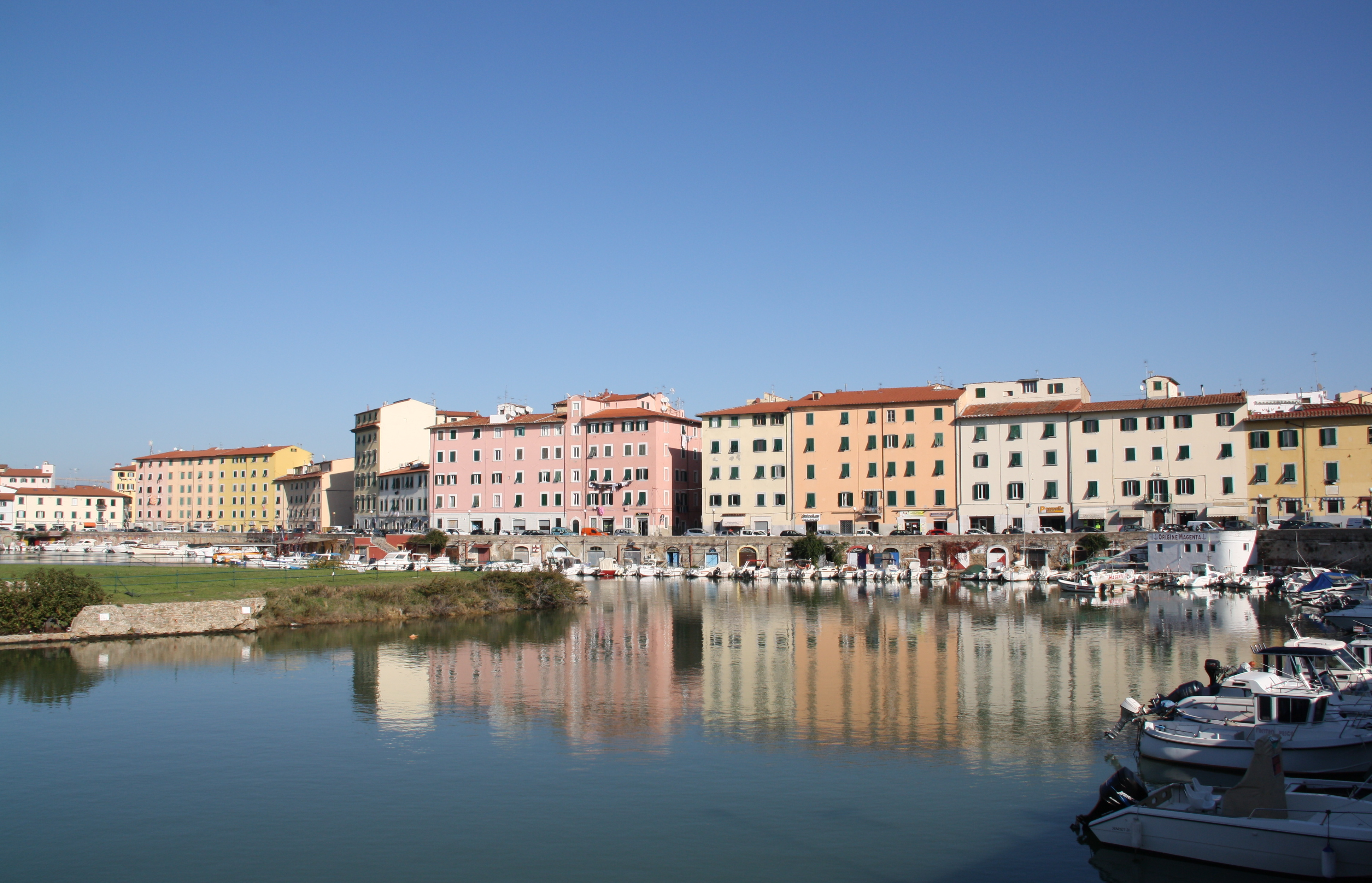 Italy, Livorno, Fosso Reale. It is the ancient ditch that surround the fortified city built by the House of Medici on plan of Bernardo Buontalenti at the end of the 16th century.